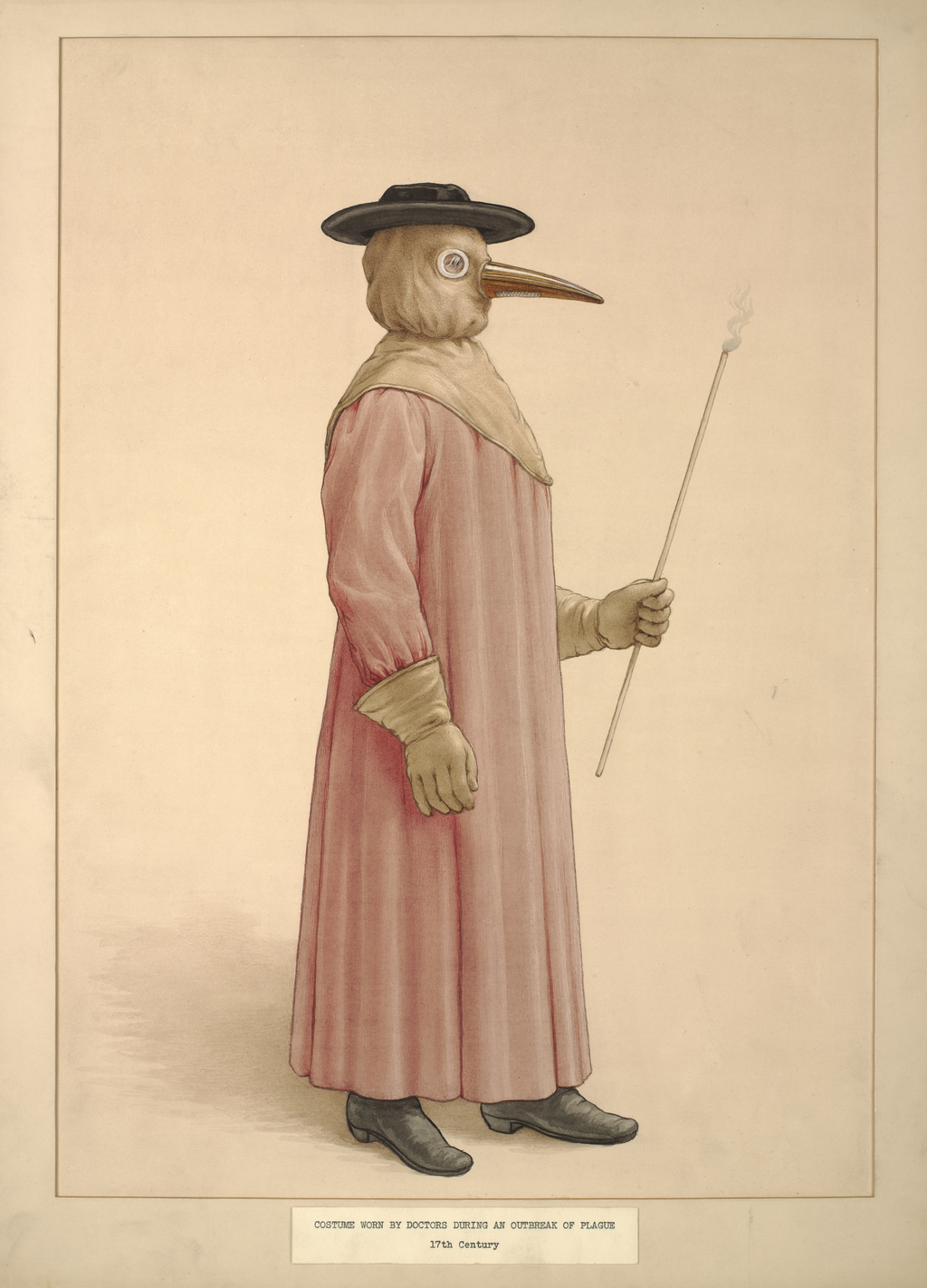 This watercolor painting depicts the costume worn by physicians attending plague patients in the 17th century. The costume was described by Jean Jacques Manget (1652-1742) in his Traité de la peste (Treatise on the plague), published in Geneva in 1721. The costume’s gown was made of morocco leather, underneath which was worn a skirt, breeches, and boots, all of leather and fitting into one another. The long beak-like nose piece was fitted with aromatic substances and the eyeholes were covered with glass. The plague is an infectious disease, caused by bacteria, which ravaged large parts of Europe in the 14th and the 17th centuries. Costumes; Epidemics; Physicians; Plague; Watercolors